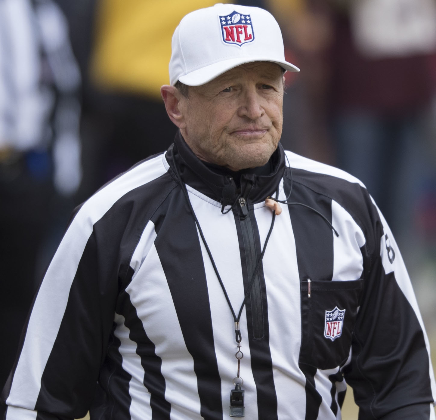 Broncos at Redskins 12/24/17